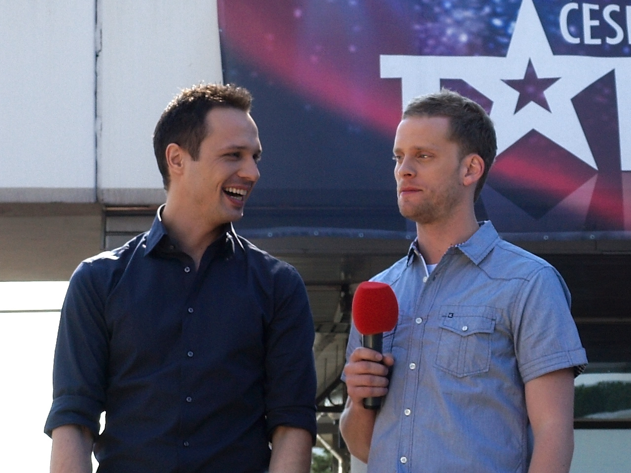 Casting for Czecho-Slovakia's Got Talent in Prague – hosts Martin „Pyco“ Rausch (left, for Slovakia) and Jakub Prachař (right, for the Czech Republic)